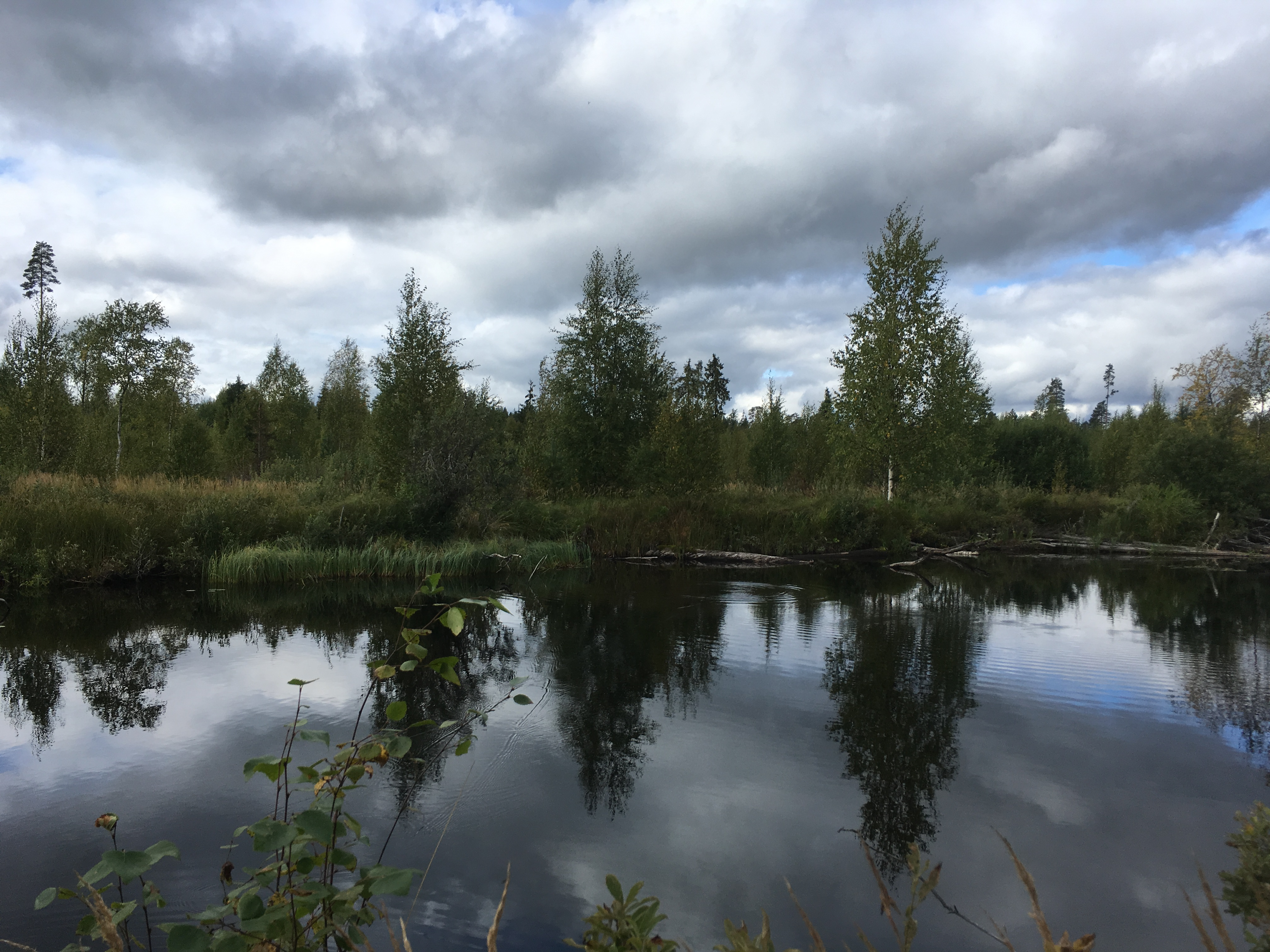 The photo of the river Cherenga (Черенга) in republic Karelia, Russia